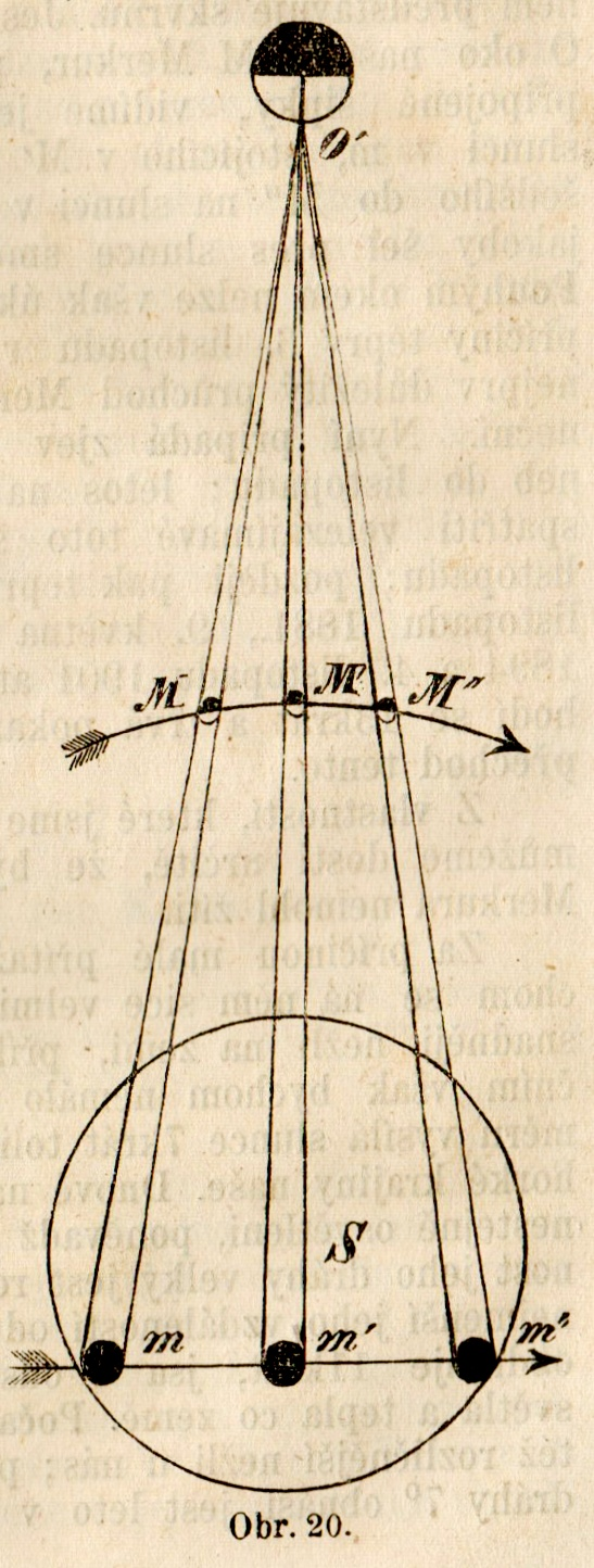 Transit of Mercury 1868.